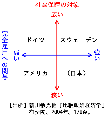 Divergence of welfare state.